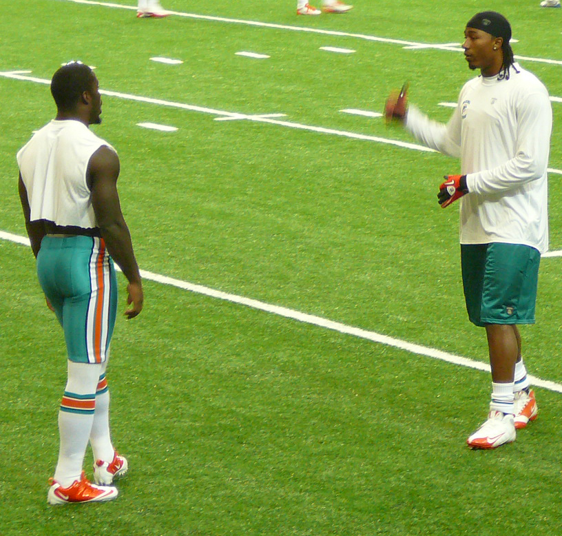 If used somewhere other than Wikipedia, Nelson, by name.